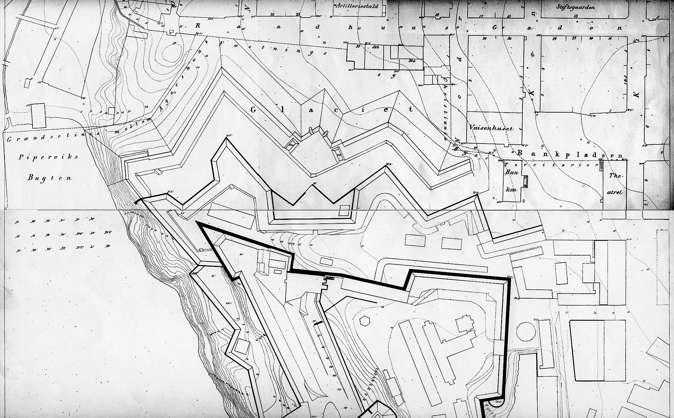 Detail of Næser's map of Christiania 1860, showing the esplanade on the north side of Akershus fortress, with scarp, ditch, counterscarp and glacis on the present Kontraskjæret park.